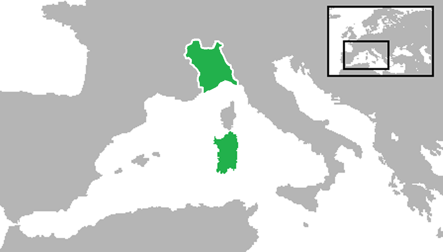 Locator map showing the Kingdom of Sardinia in the year 1815. (Partially based on Euratlas map of Europe - 1800.)